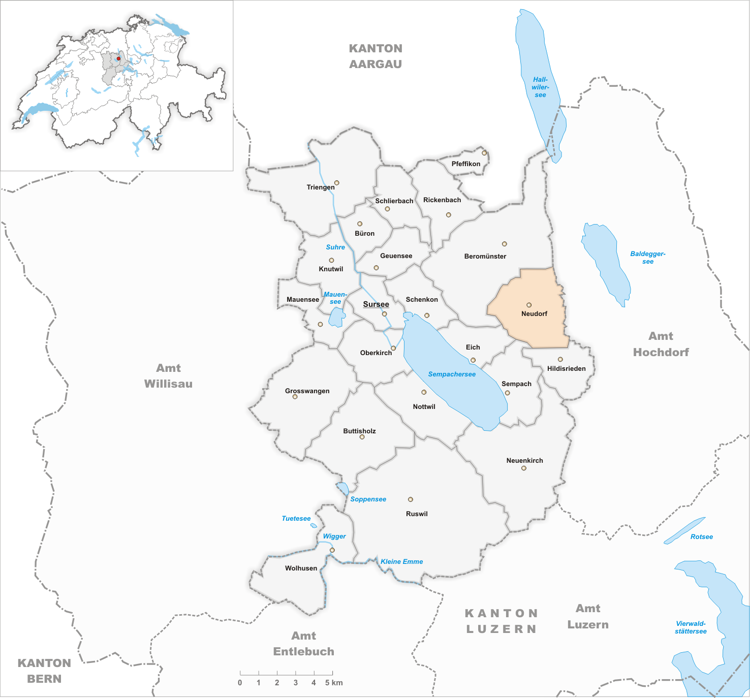 Municipality Neudorf